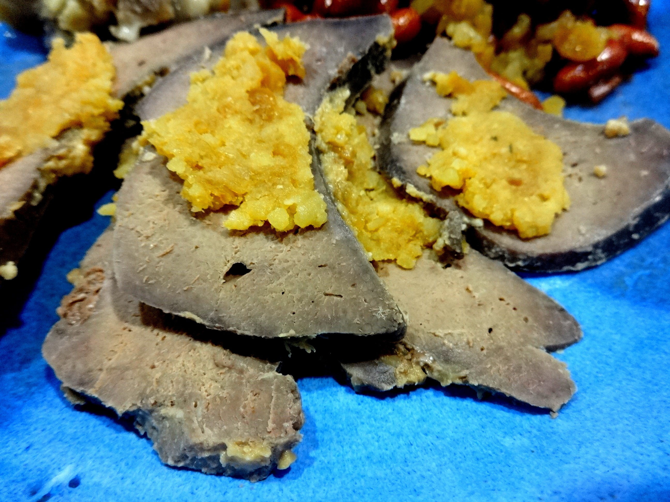 Miso-pickled pig's liver of Amami cuisine, Japan